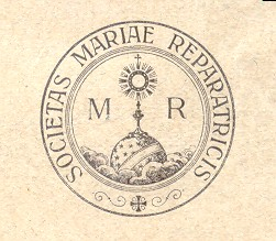 Logo de la Société de Marie-Réparatrice(SMR)